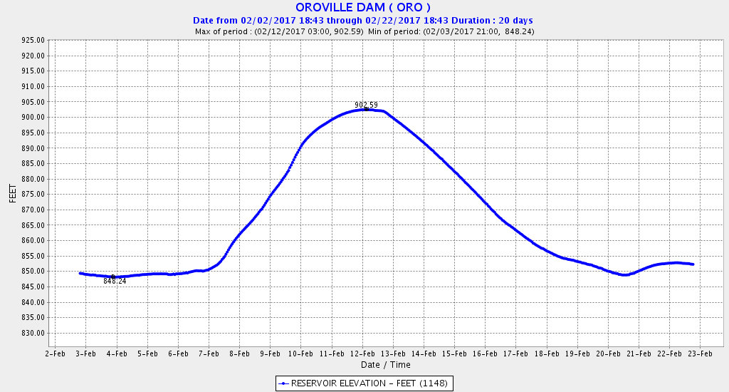 Plot showing Oroville Lake Elevation Feb 2017